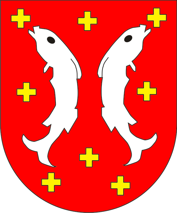 coat of arms